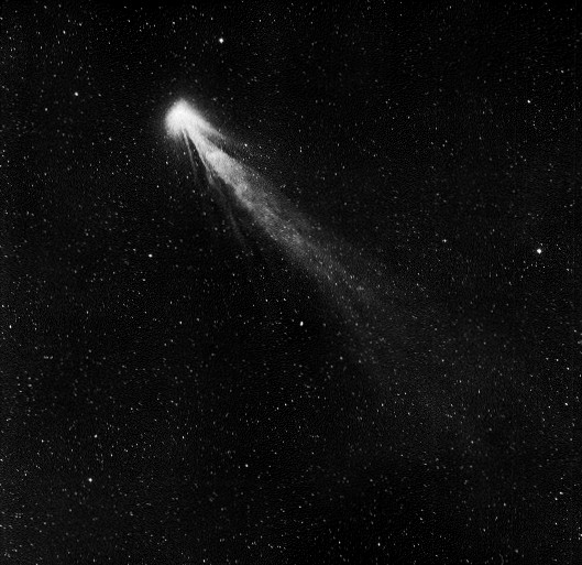 Comet Humason 1962 VIII, 10 minute exposure on Kodak 103a-O plate, on September 4.269, 1962. Photograph by C.E. Kearnes and K. Rudnicki with 48inch Schmidt at Palomar Observatory, California.